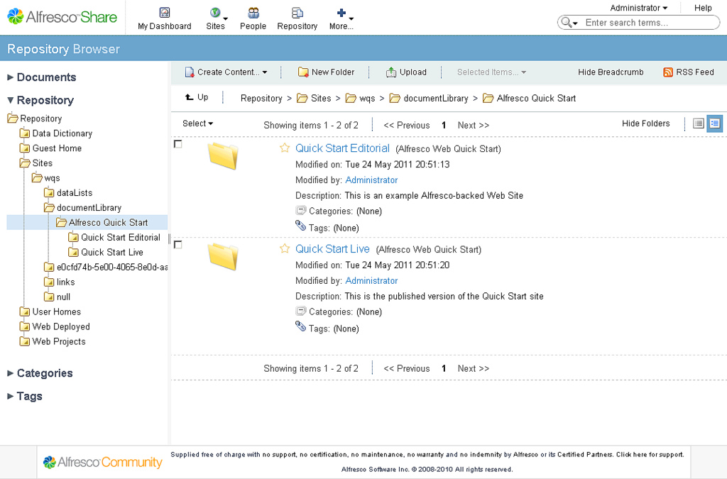 alfresco share